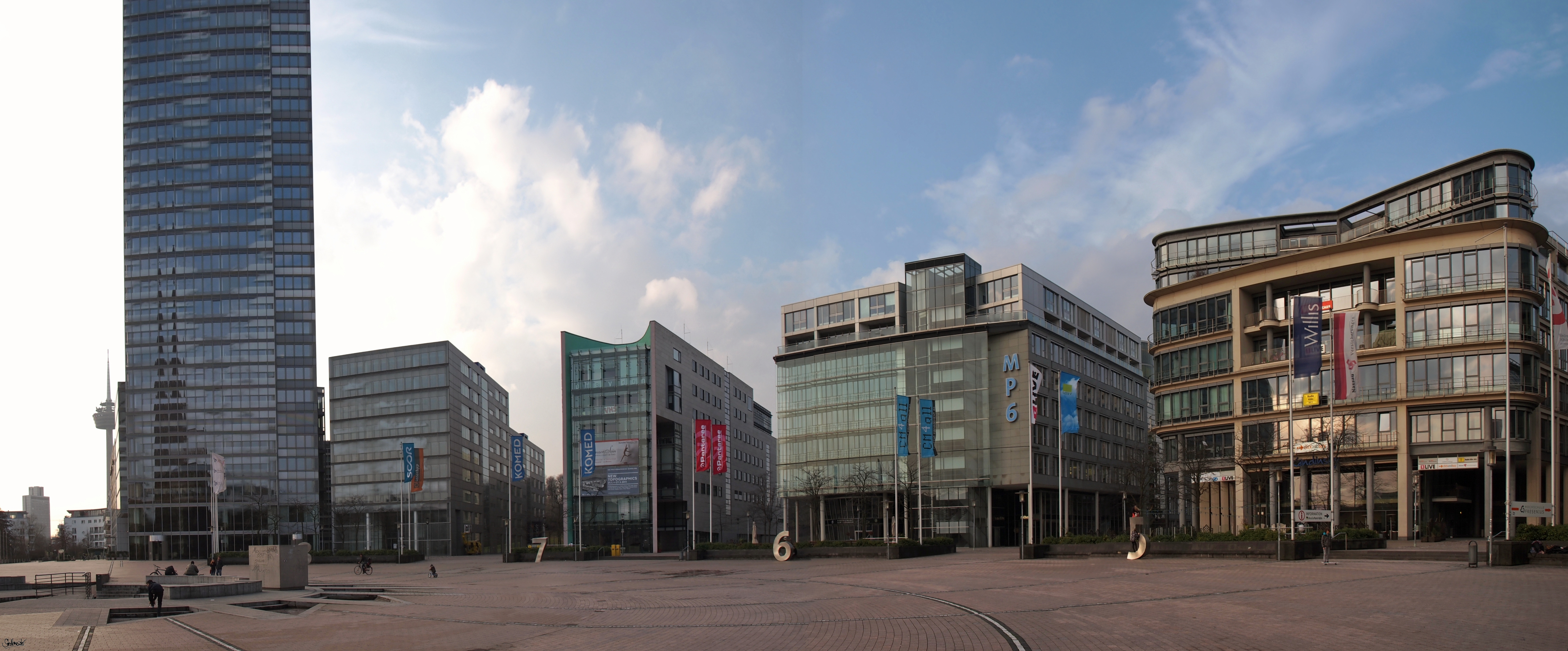 Mediapark Cologne main square opposite to the CineDom